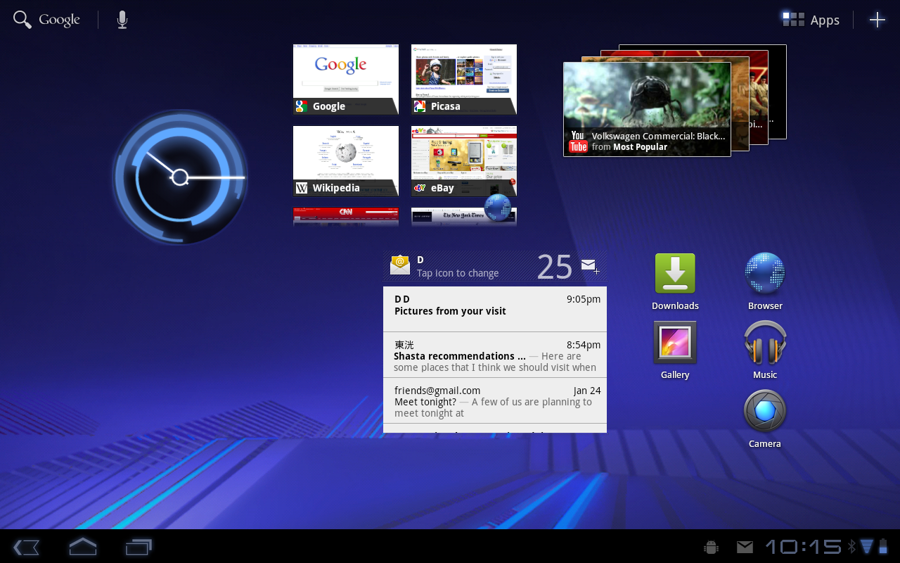 Android Honeycomb 3.0 Launcher